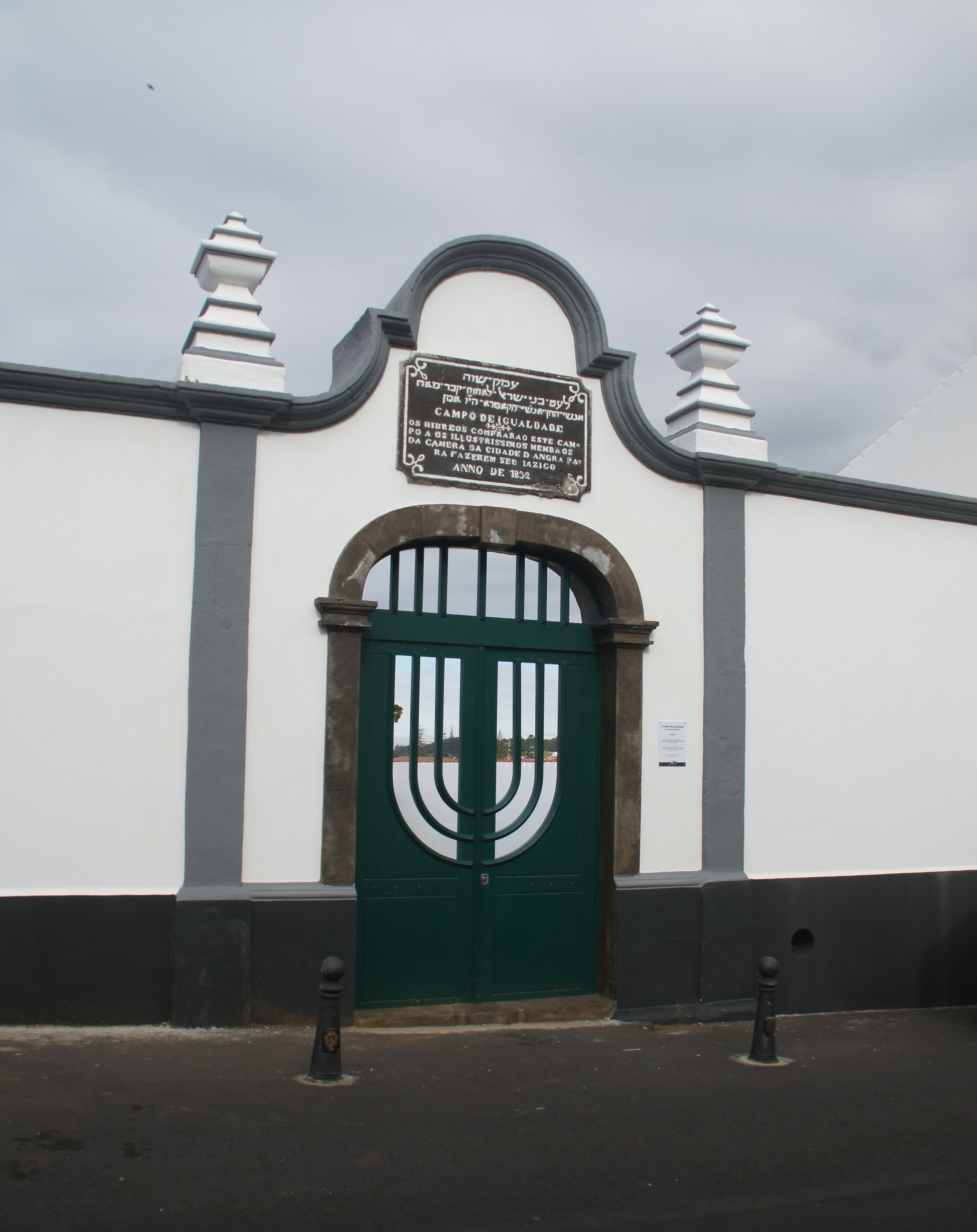 Main gate of the Jewish cemetery of Angra do Heroísmo, Azores.